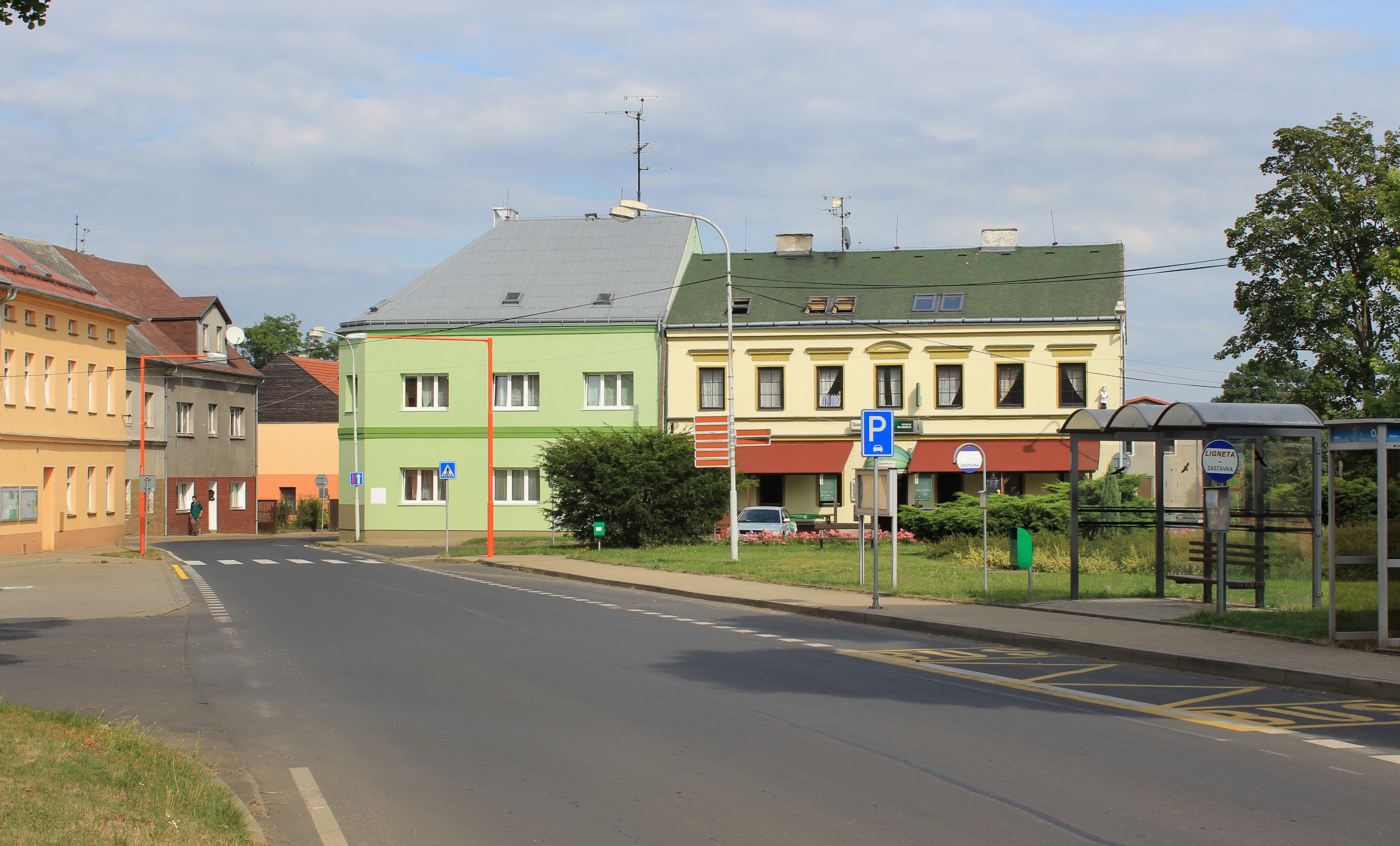 Krušnohorské square in Hroznětín, Czech Republic.